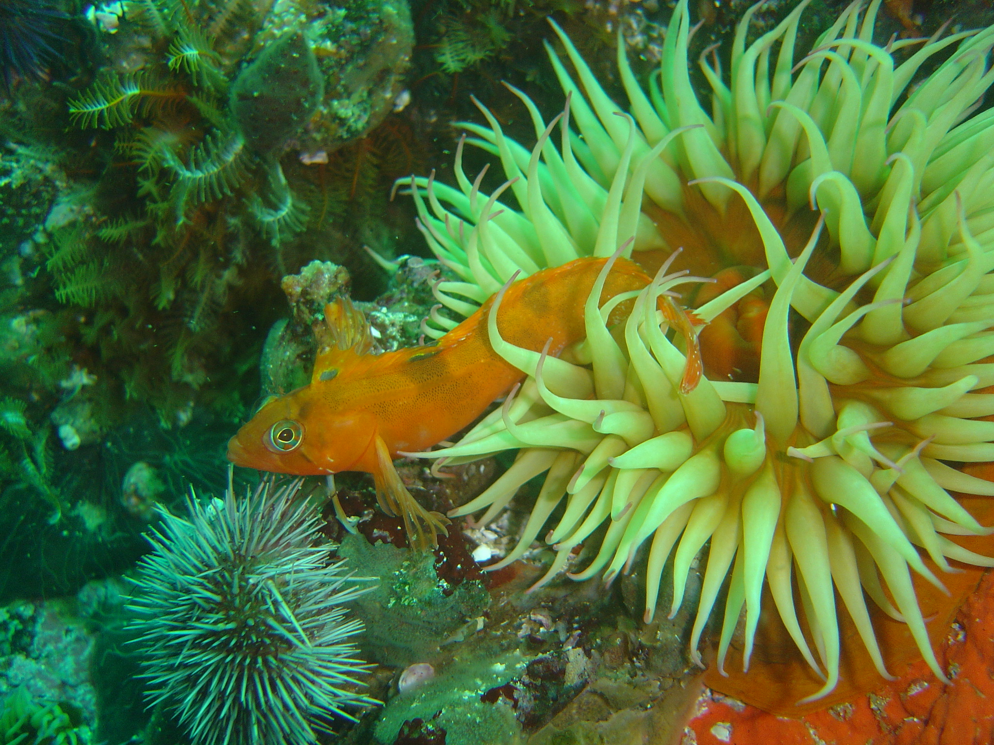 Partridge Point, Cape Peninsula.